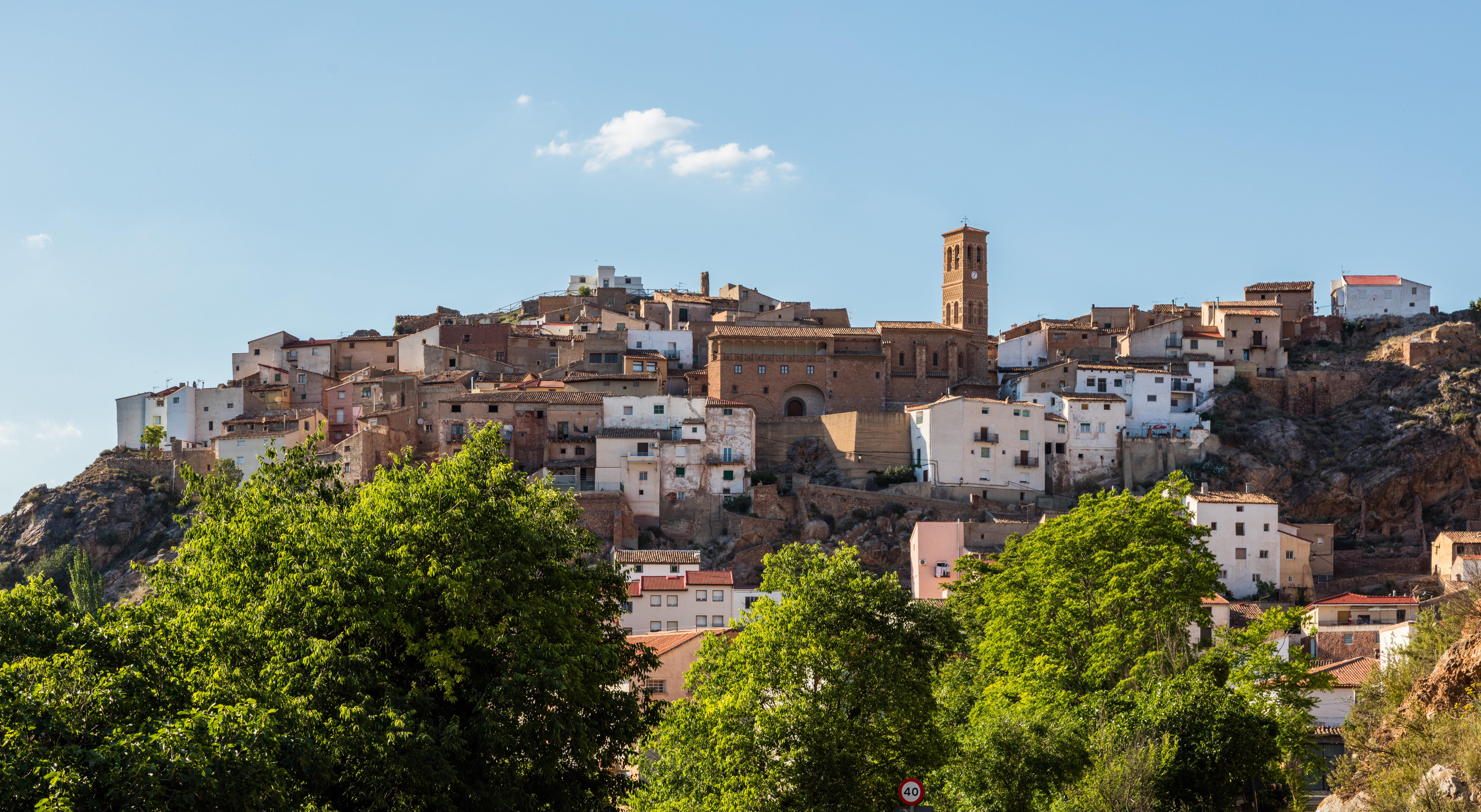 Tierga, Zaragoza, Spain